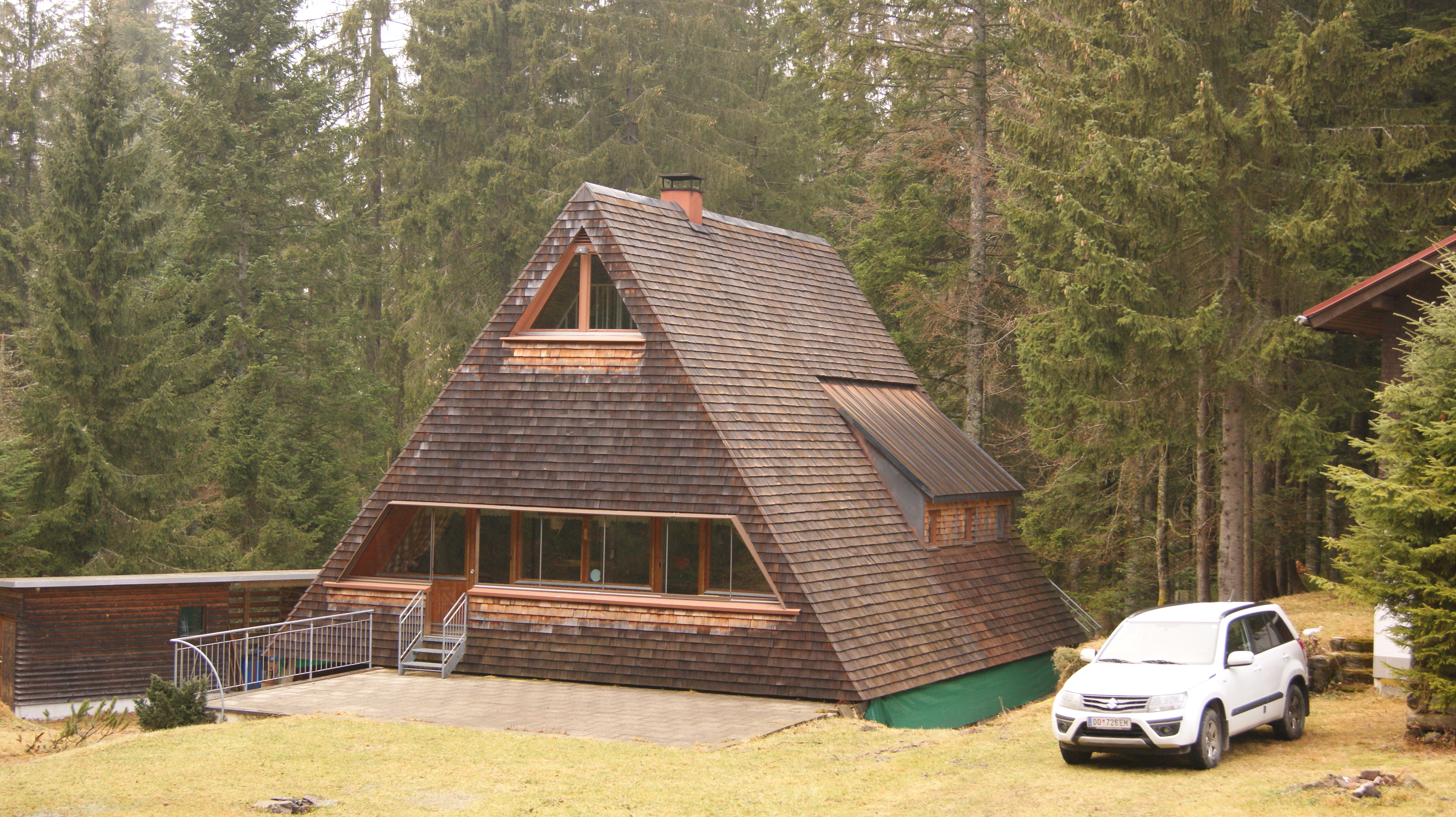 Oberlose Haus No 581 at the Boedele, Schwarzenberg, Vorarlberg, Austria (1189 masl).